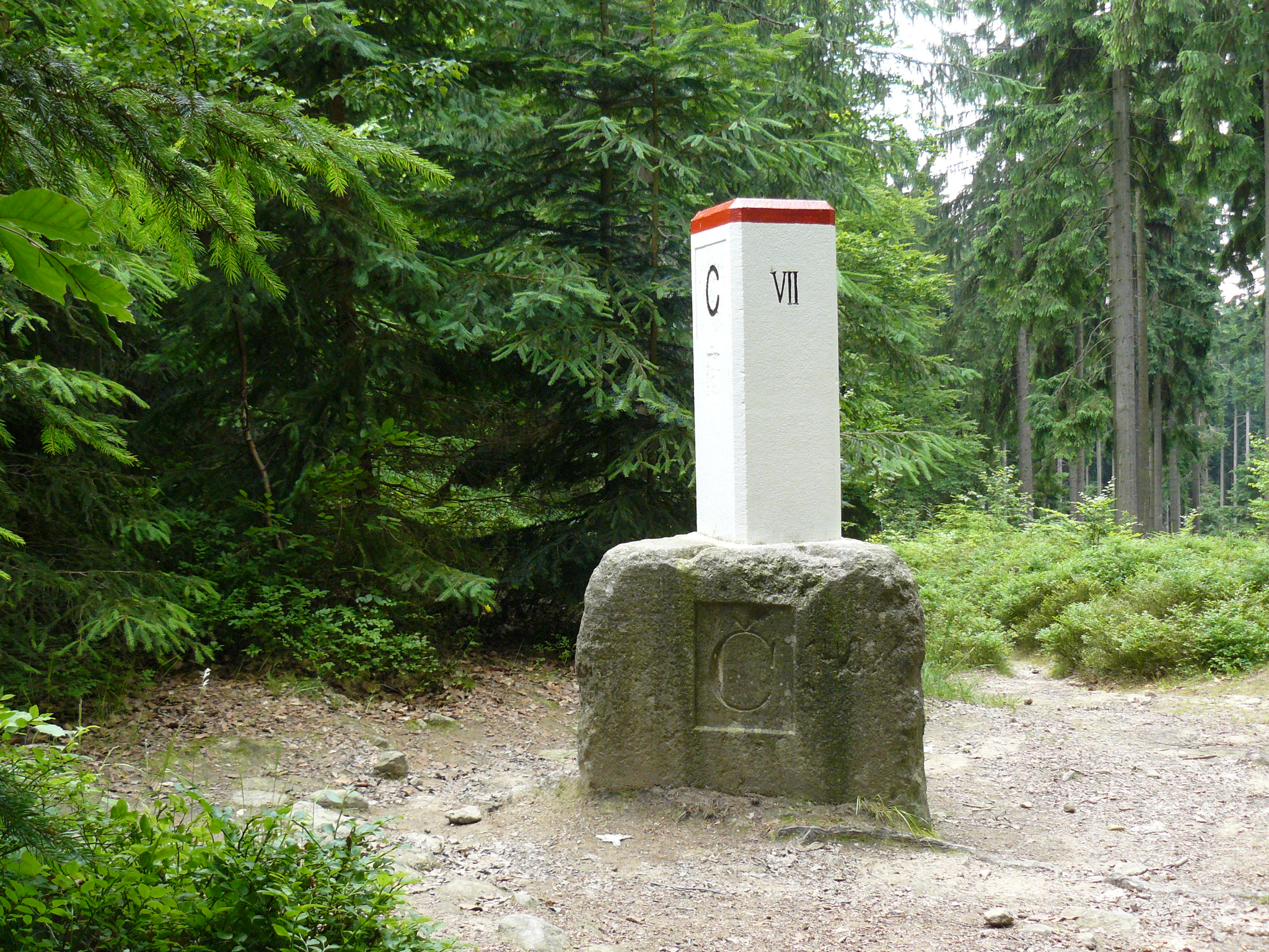 Czech Republic - Austria international border - border stone at historical tripoint of Bohemia, Moravia and Lower Austria